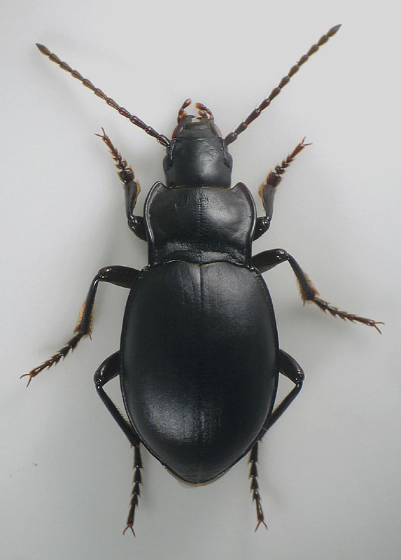 Metrius contractus